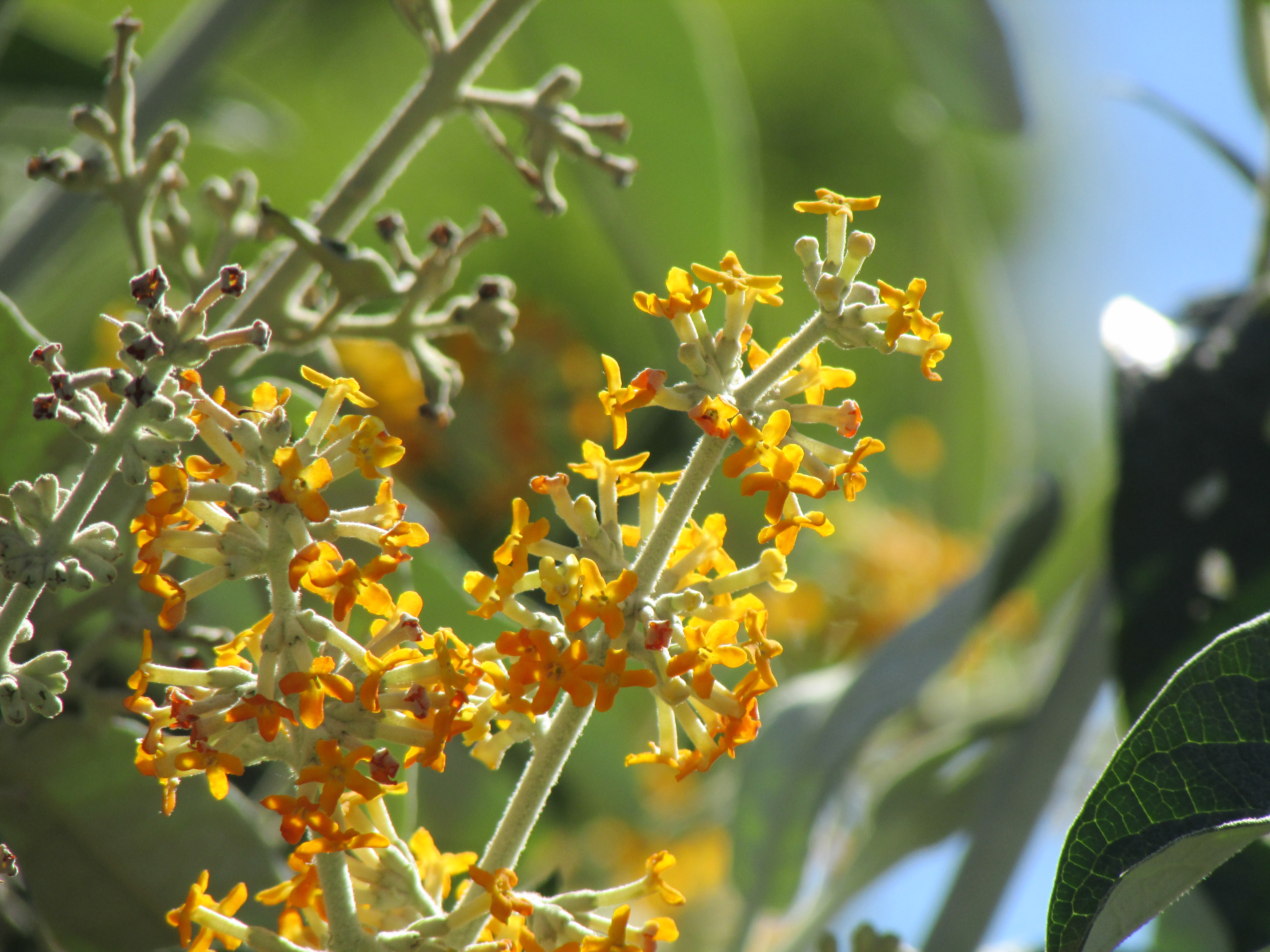 Flowers form the Botanic Garden of Viña del Mar